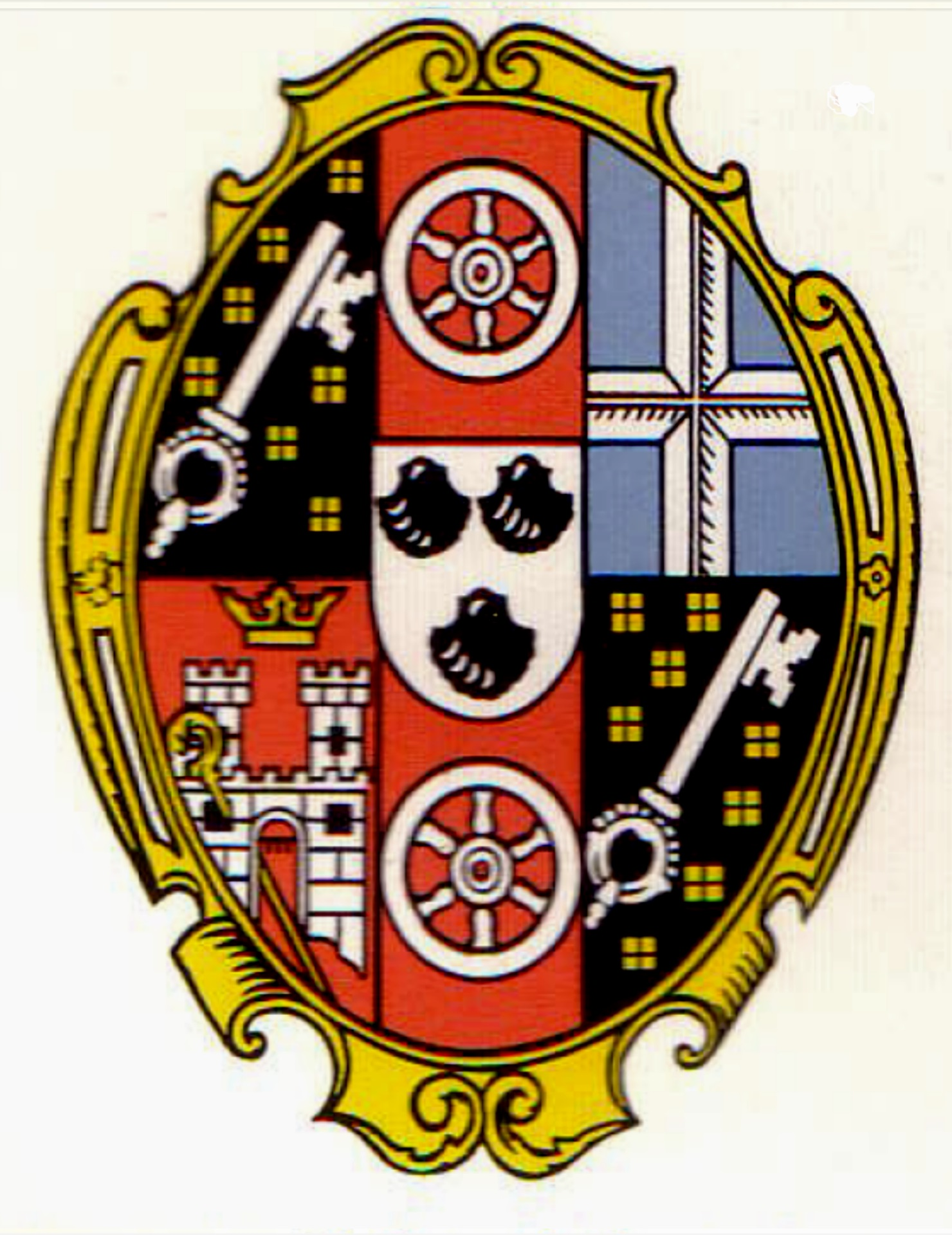 Lothar Friedrich von Metternich-Burscheid